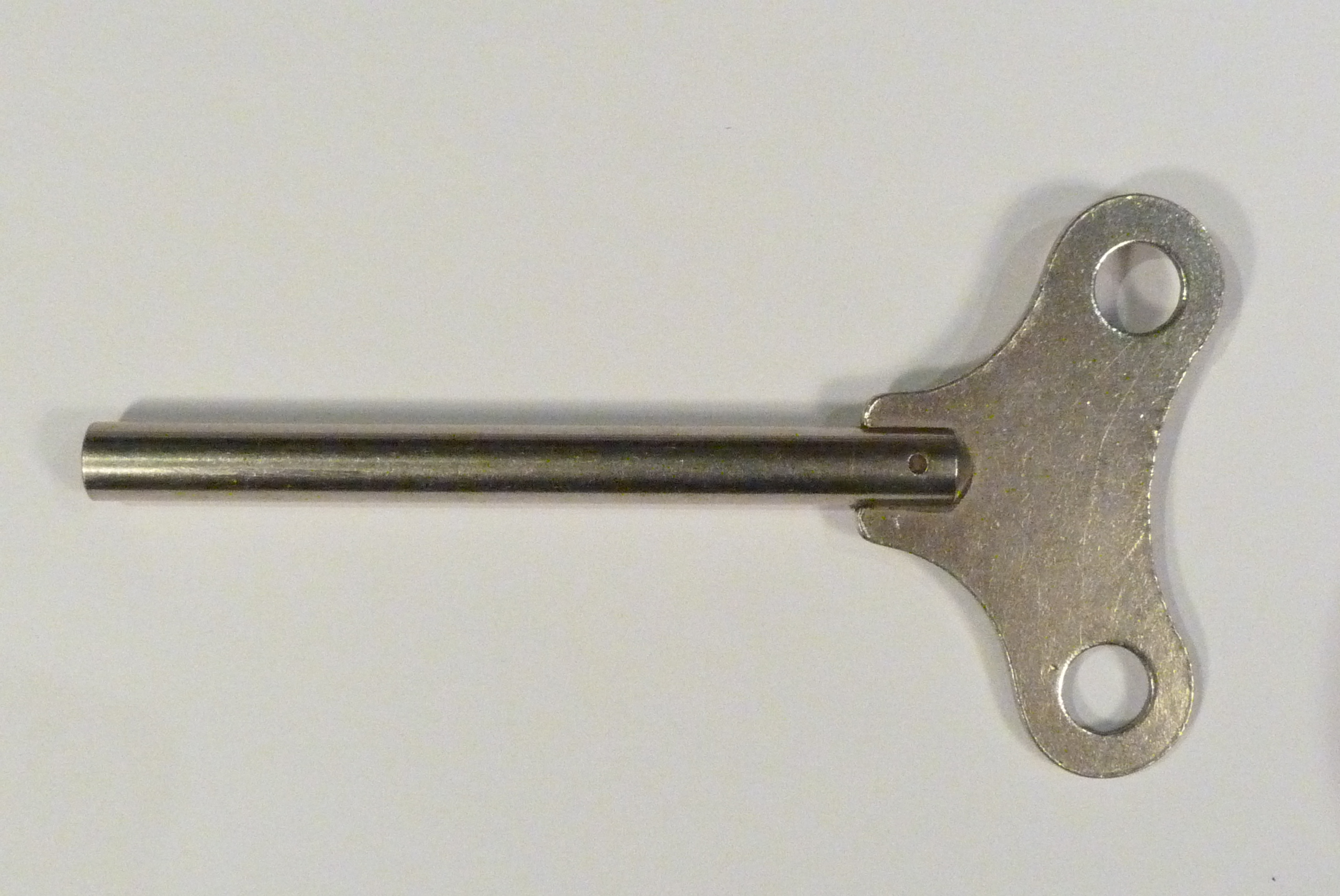 Winding key for a analogue data registration device (paper writer, about 1960)